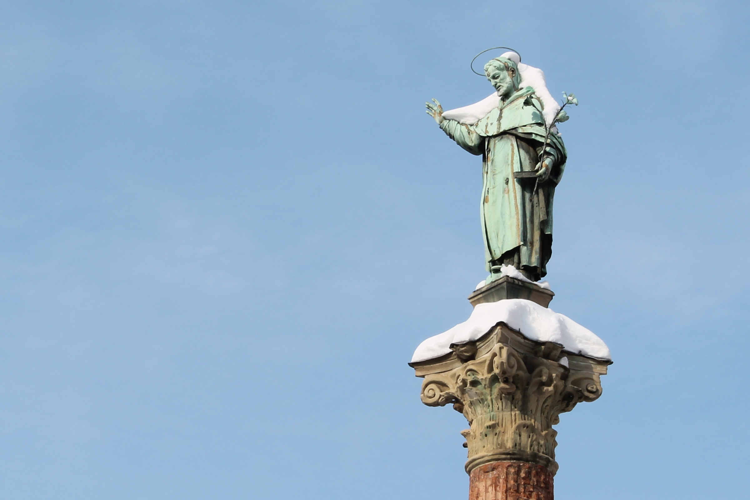 Snowy St. Dominic column in Bologna